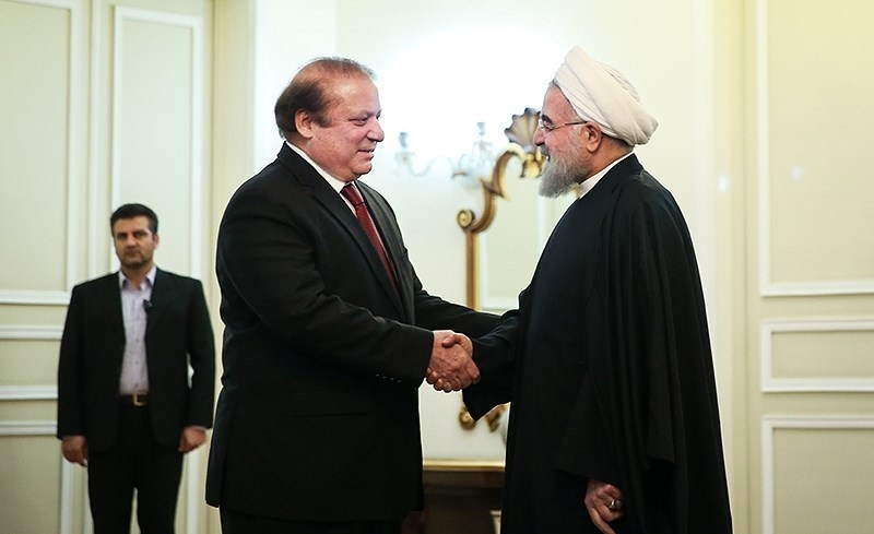 Hassan Rouhani in meeting with Pakistani Prime Minister Nawaz Sharif in Saadabad Palace, Tehran